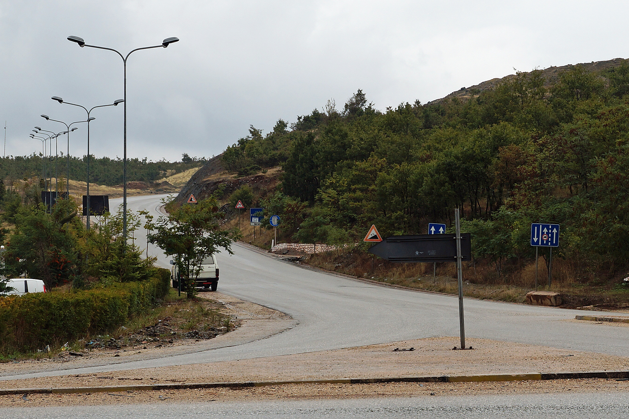 First part of SH9 at Qafë Thana, Albania